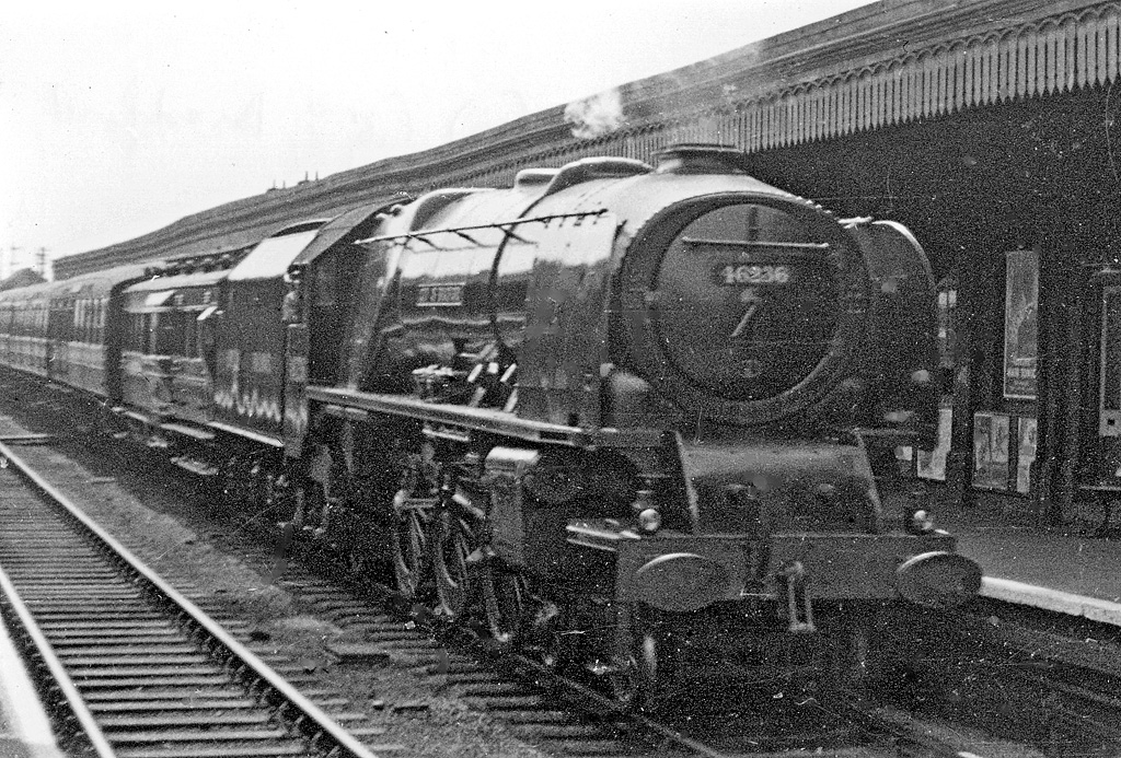 The 1948 Exchange Trials: an LMS Pacific pounds out through Finsbury Park on a King's Cross to Leeds express. View southward, towards King's Cross on the East Coast Main Line: Stanier 'Coronation 8P 4-6-2 No. 46236 'City of Bradford' on the 13.10 King's Cross - Leeds Central, complete with dynamometer car behind the engine.